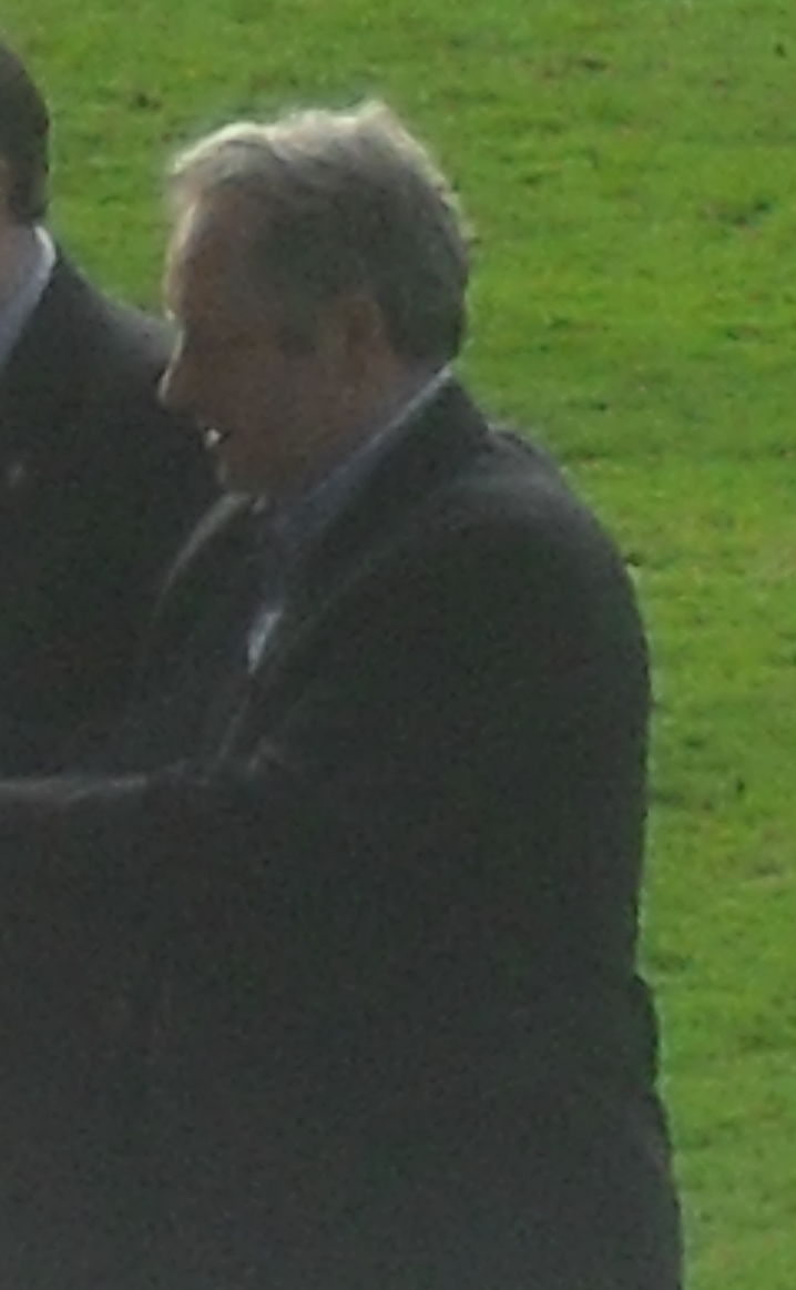 Gordon Staniforth attending York City's match against Newport County at Bootham Crescent, York on 9 April 2011